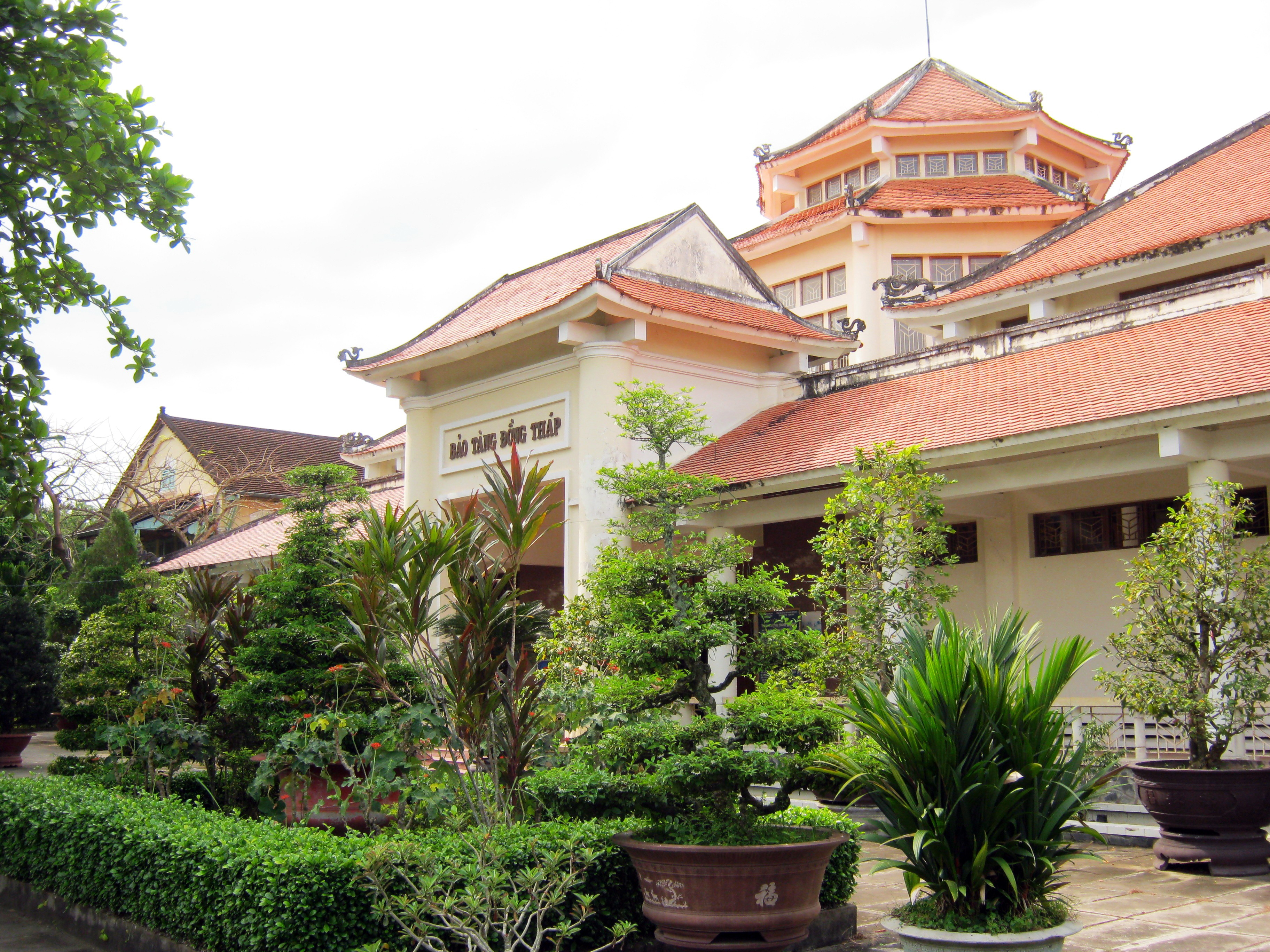 Đồng Tháp Museum in Cao Lanh City, Đồng Tháp Province